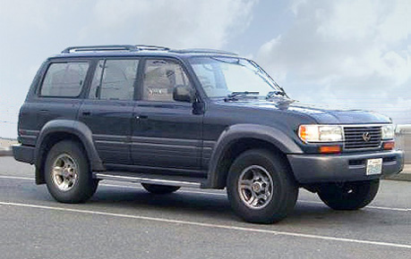 my first truck......truly built like a rock!!